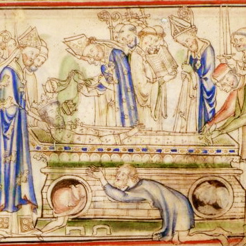 The burial of King Edward the Confessor. Three sick people seeking cures either kneel in prayer before the tomb, or crawl in and out of apertures. (Cambridge University Library, Ee.3.59, fo. 29v)